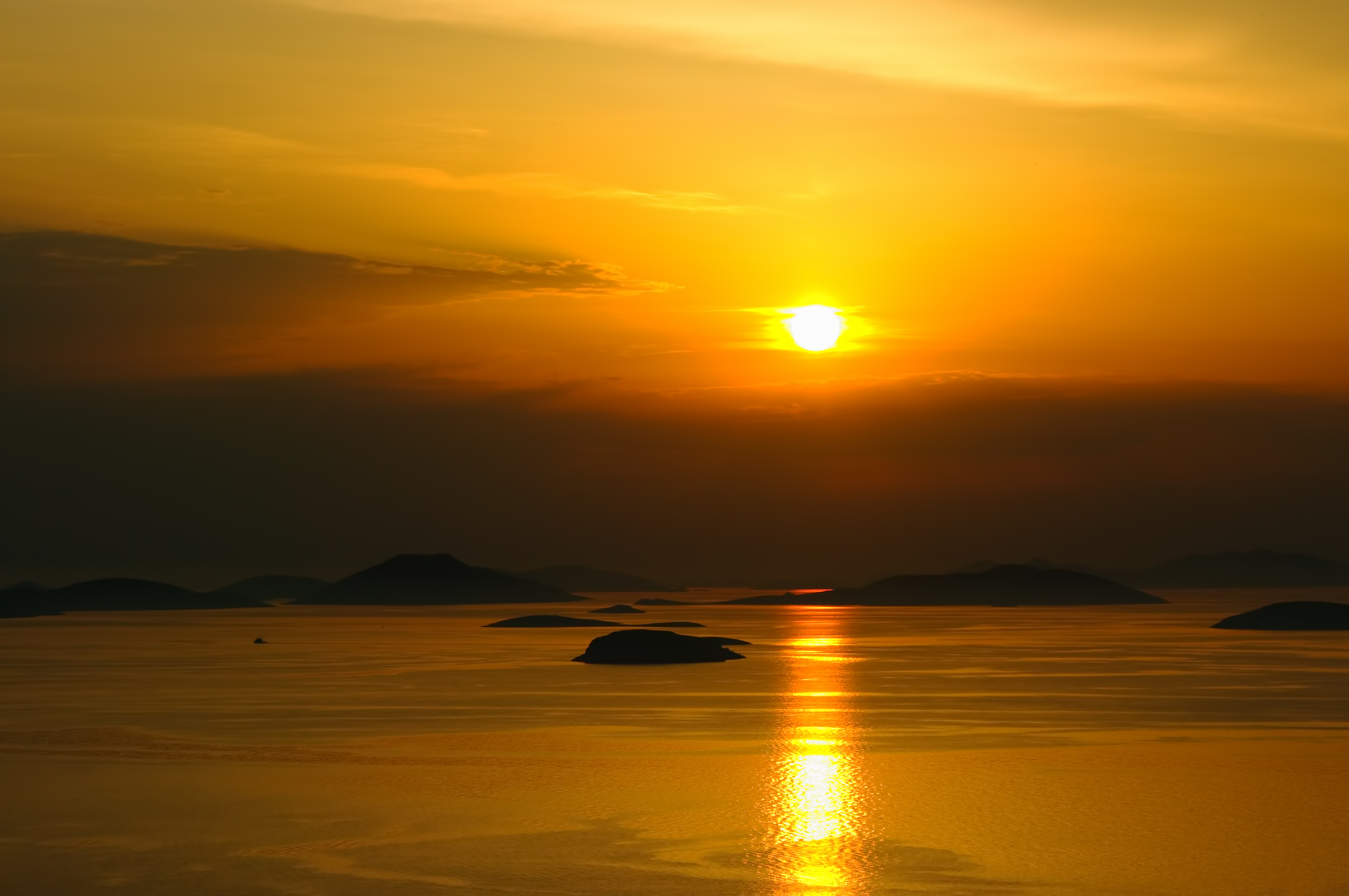 Sunset over the Kornati islands. View from the island of Zirje.